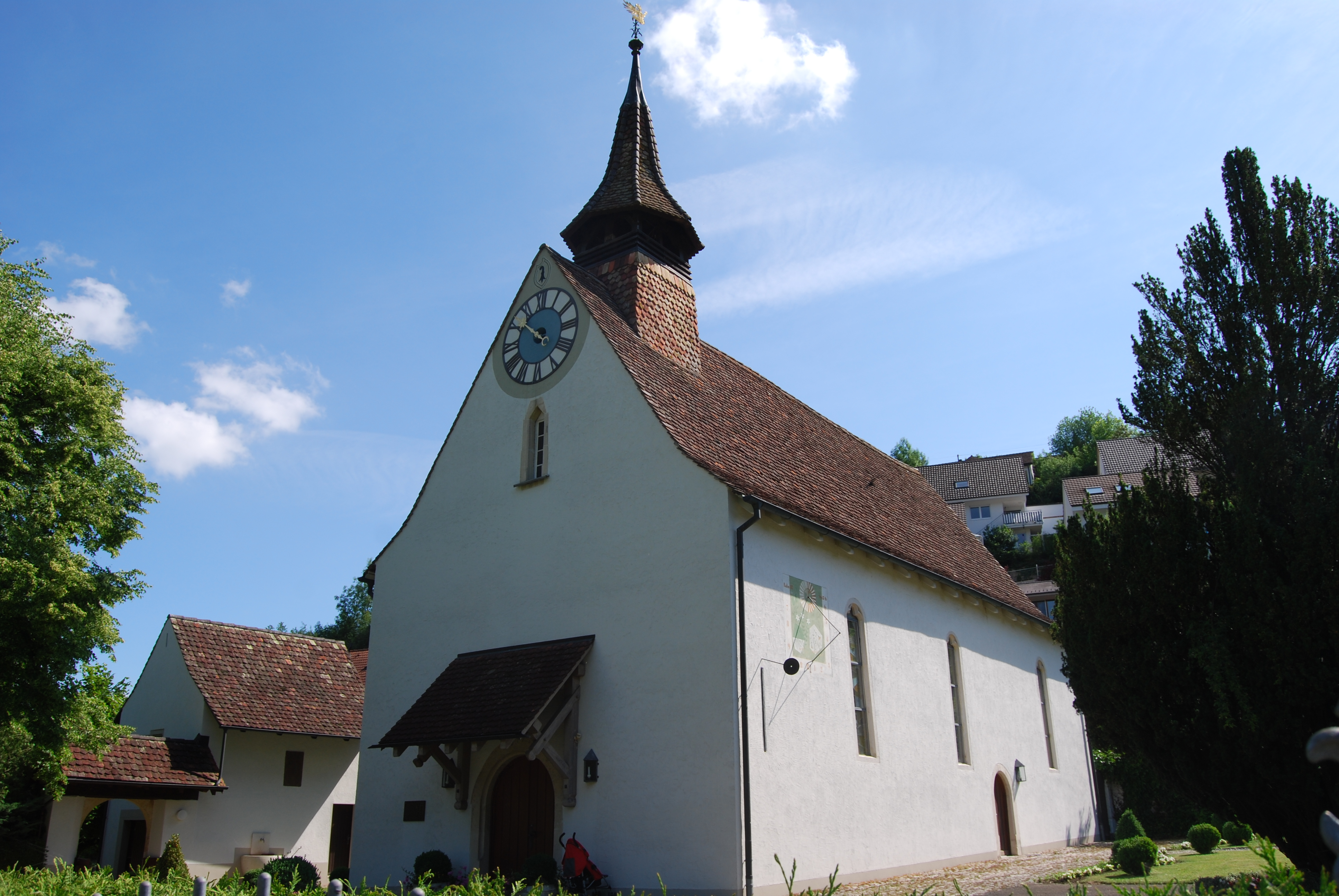 Church of Hölstein, canton of Basel-Country, Switzerland